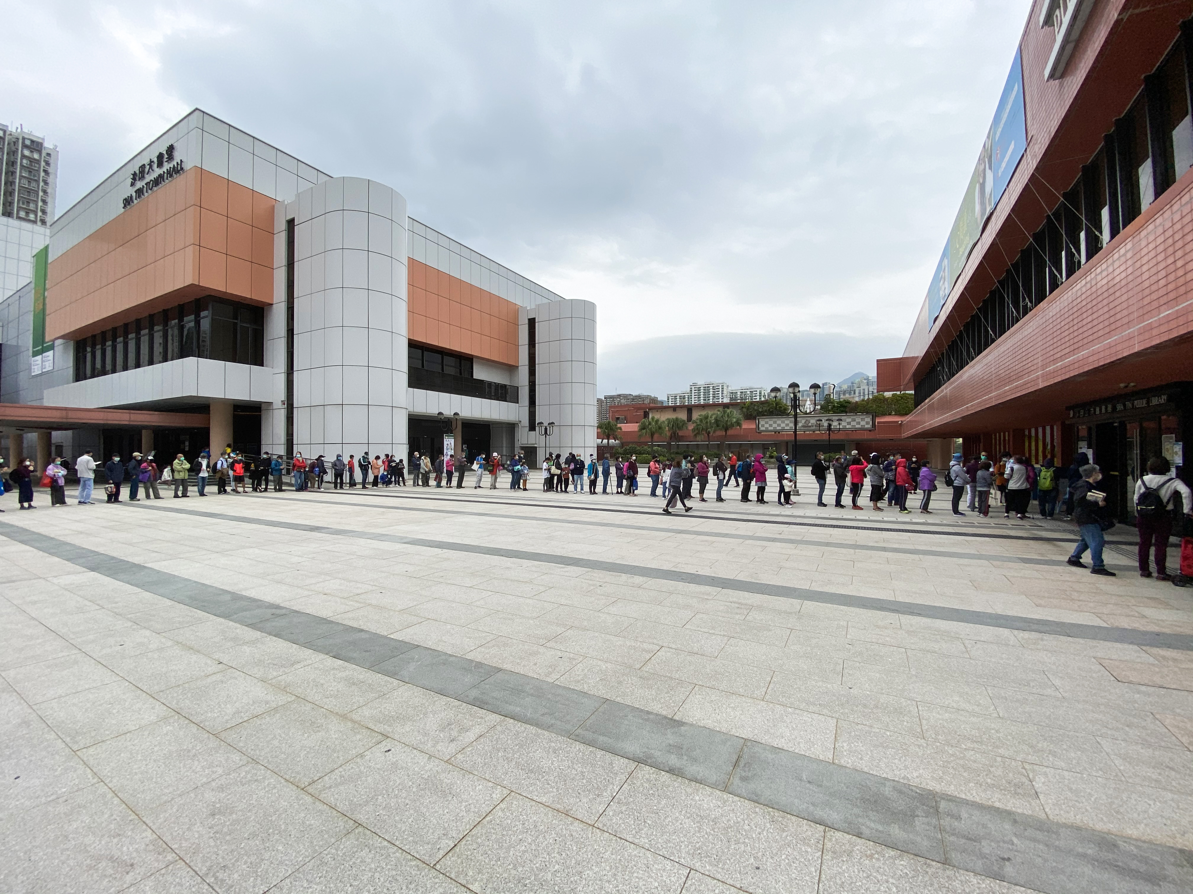 Shatin Public Library reopen queue